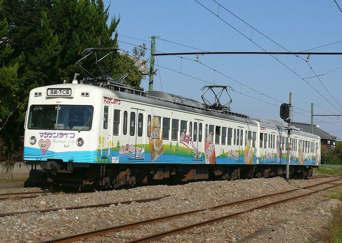 Joushin Dentetu Railway Type 150 (155＋156) Train (Japan). Full-page ad train of [Mannan life Ltd.]. It takes a picture from the public road in premises of the above Joushin Line Maniwa station.